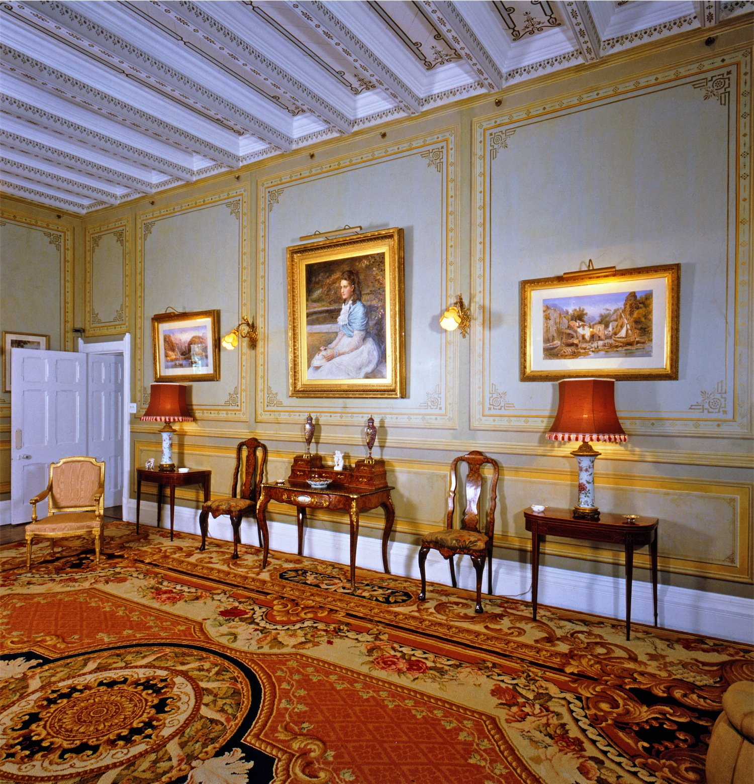 This media shows a South African Protected Site with SAHRA file reference 9/2/111/0107.